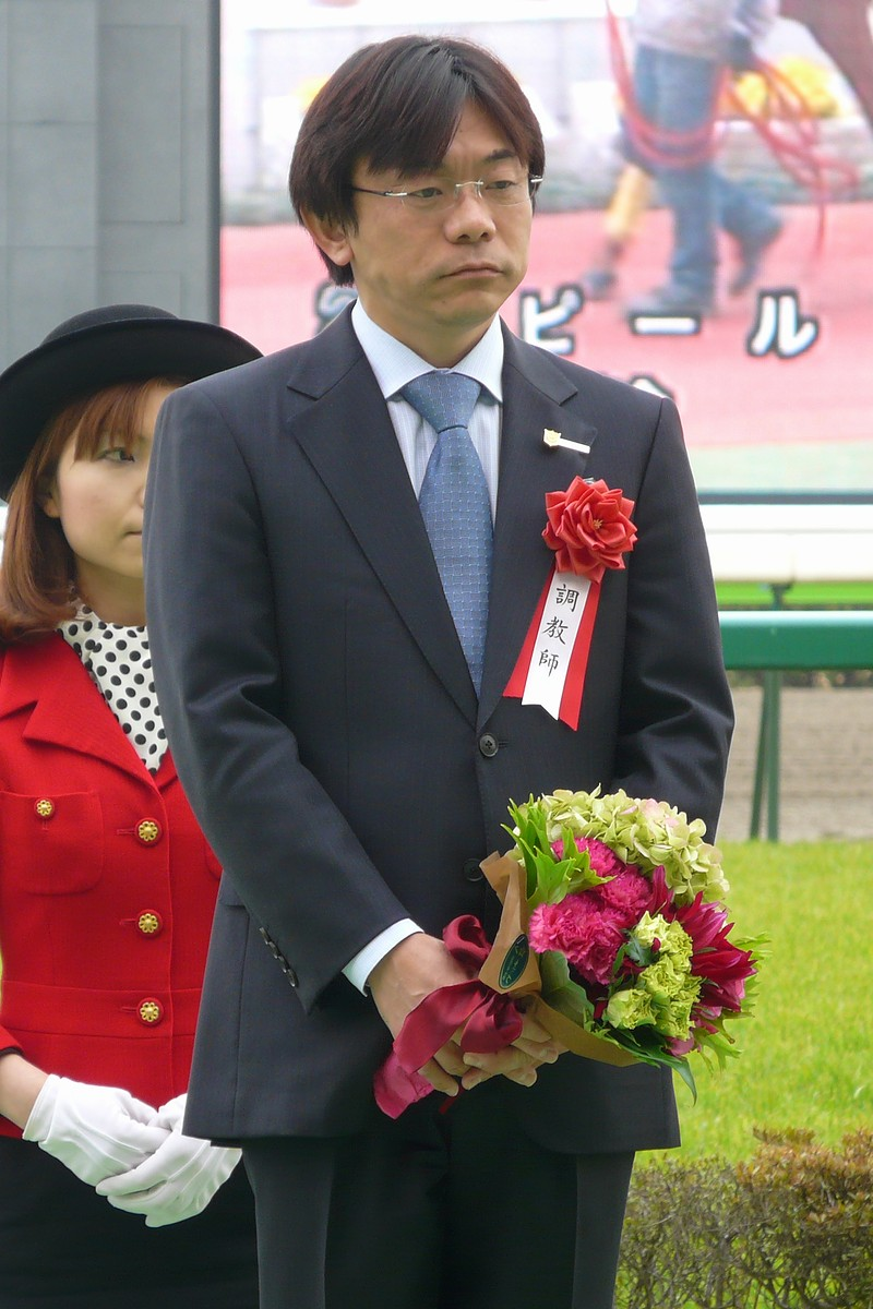 Yukihiro-Kato20100313